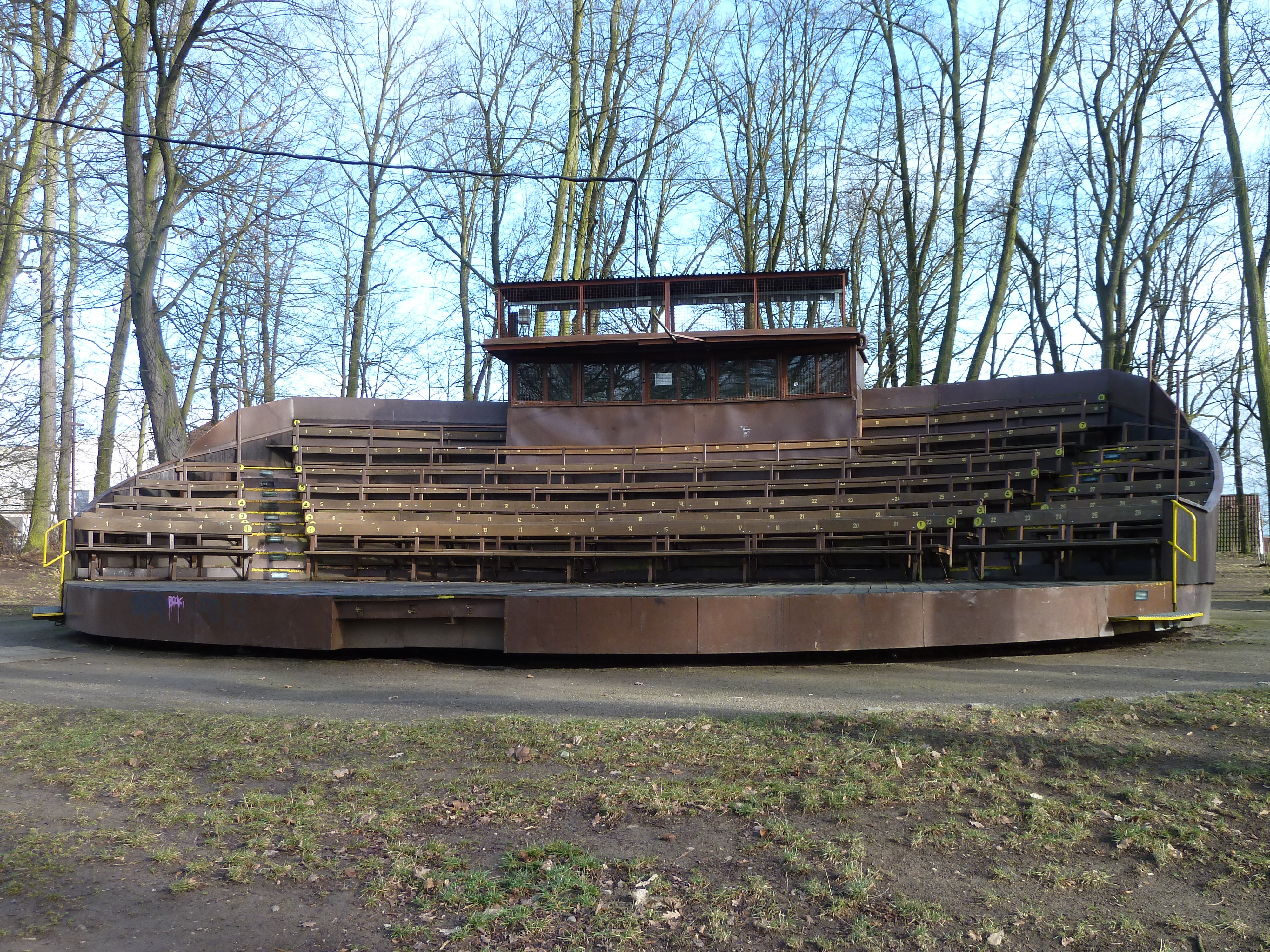 Revolving auditorium in Týn nad Vltavou